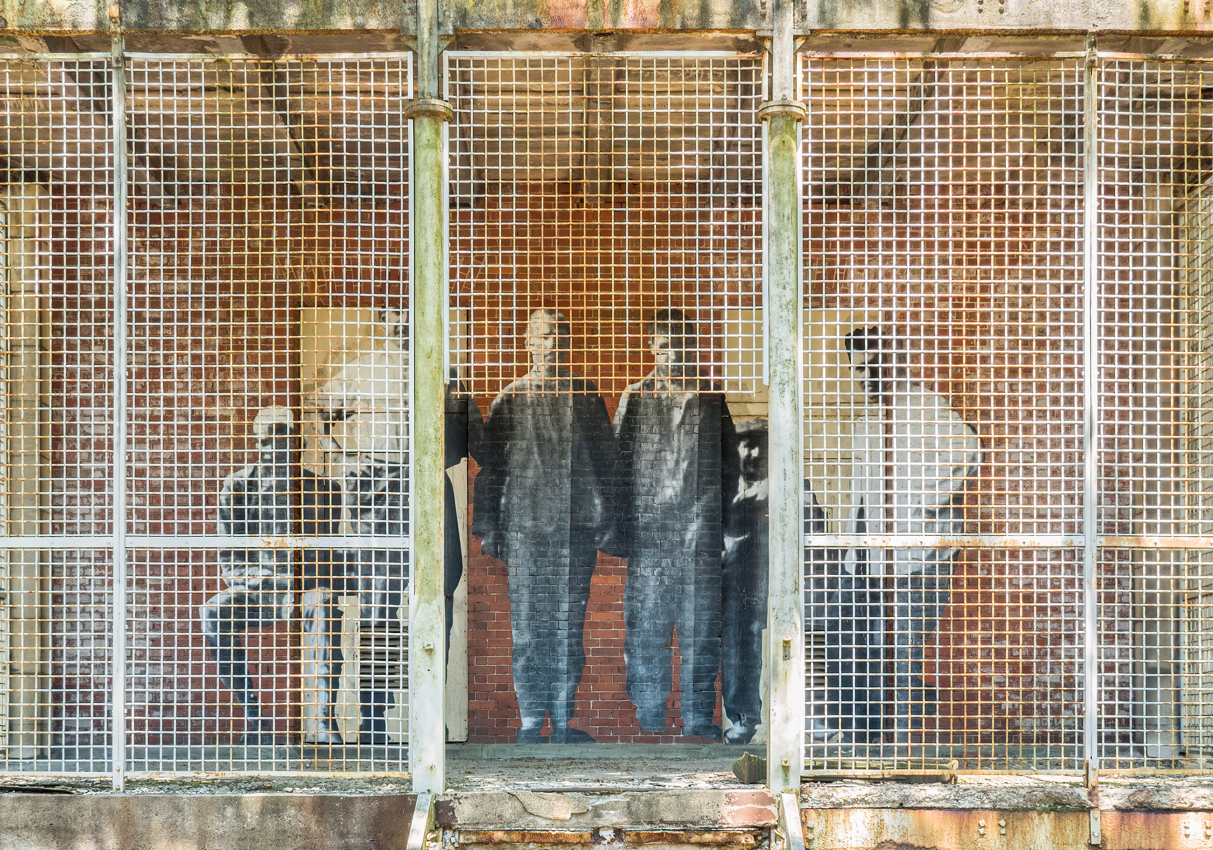 A porch/deck of one of the Ellis Island Immigrant Hospital buildings, closed since 1930. The photograph is one from the early 20th century, when the hospital was operational. In 2014 the French artist JR put up large reproductions of such photographs around the hospital grounds.